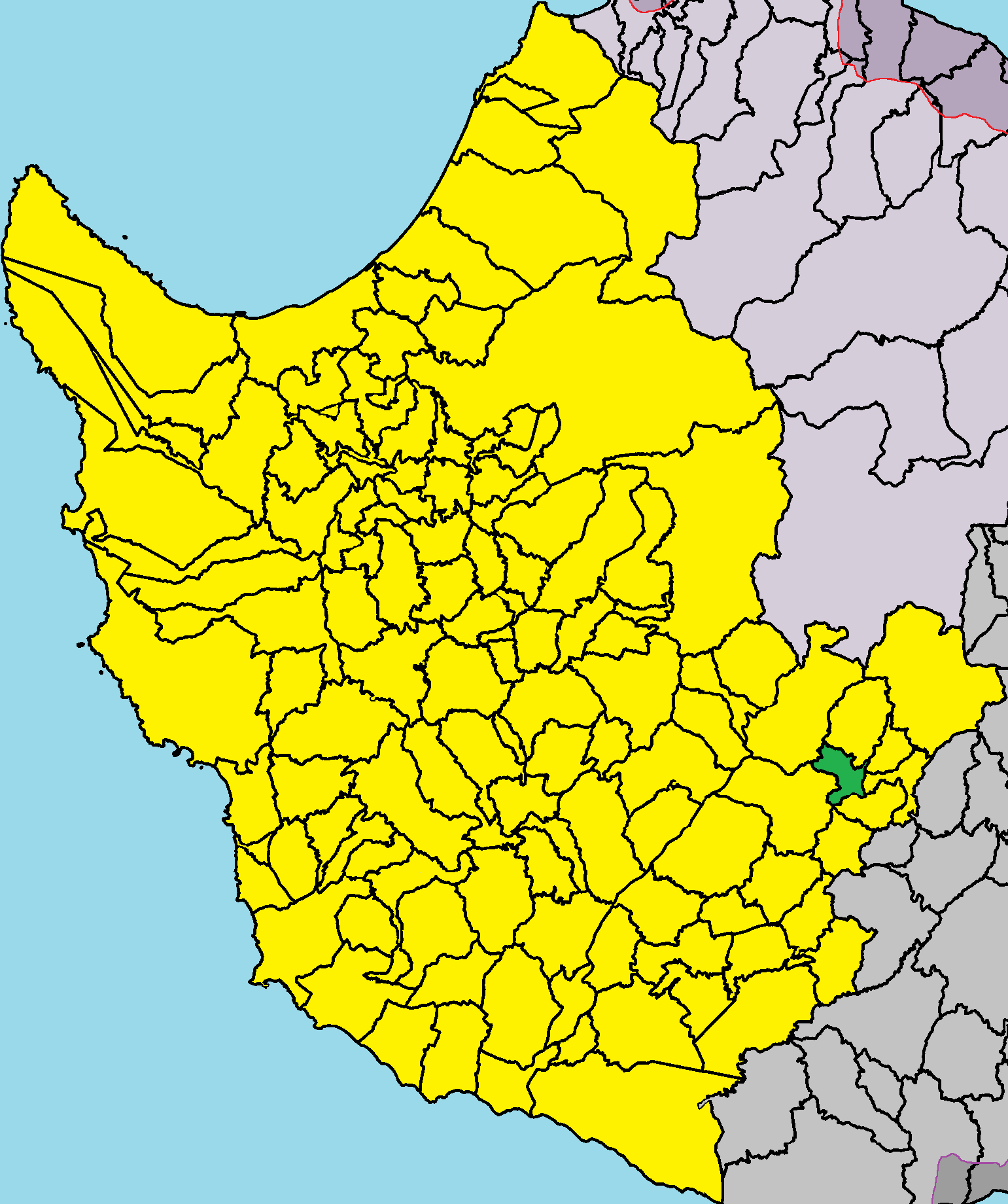 Mesana in Paphos District.